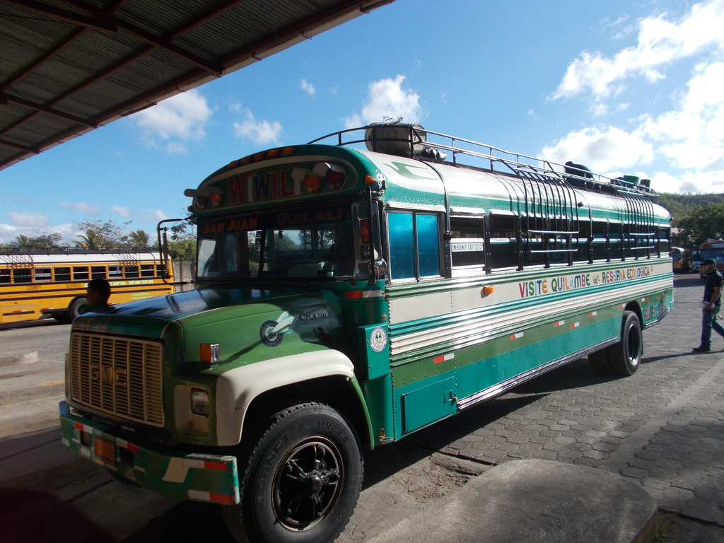 Ruteado in South Central Bus Station, Estelí, Nicaragua